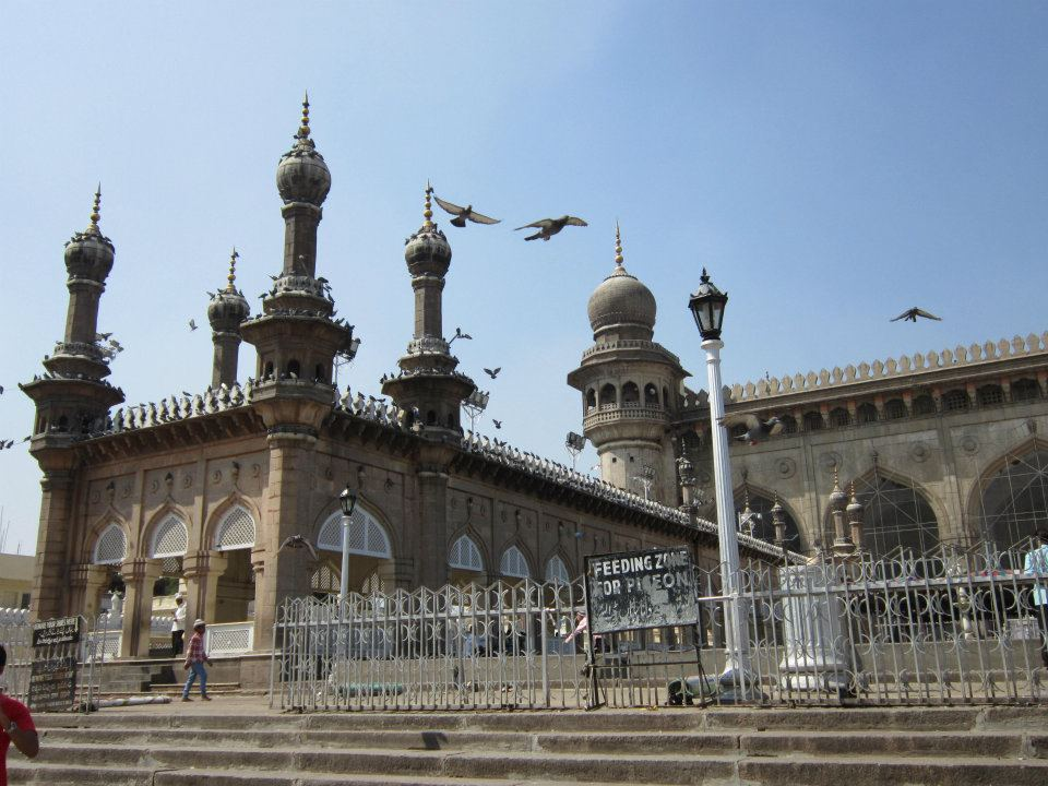 Mecca Masjid Hyderabad_pigeons